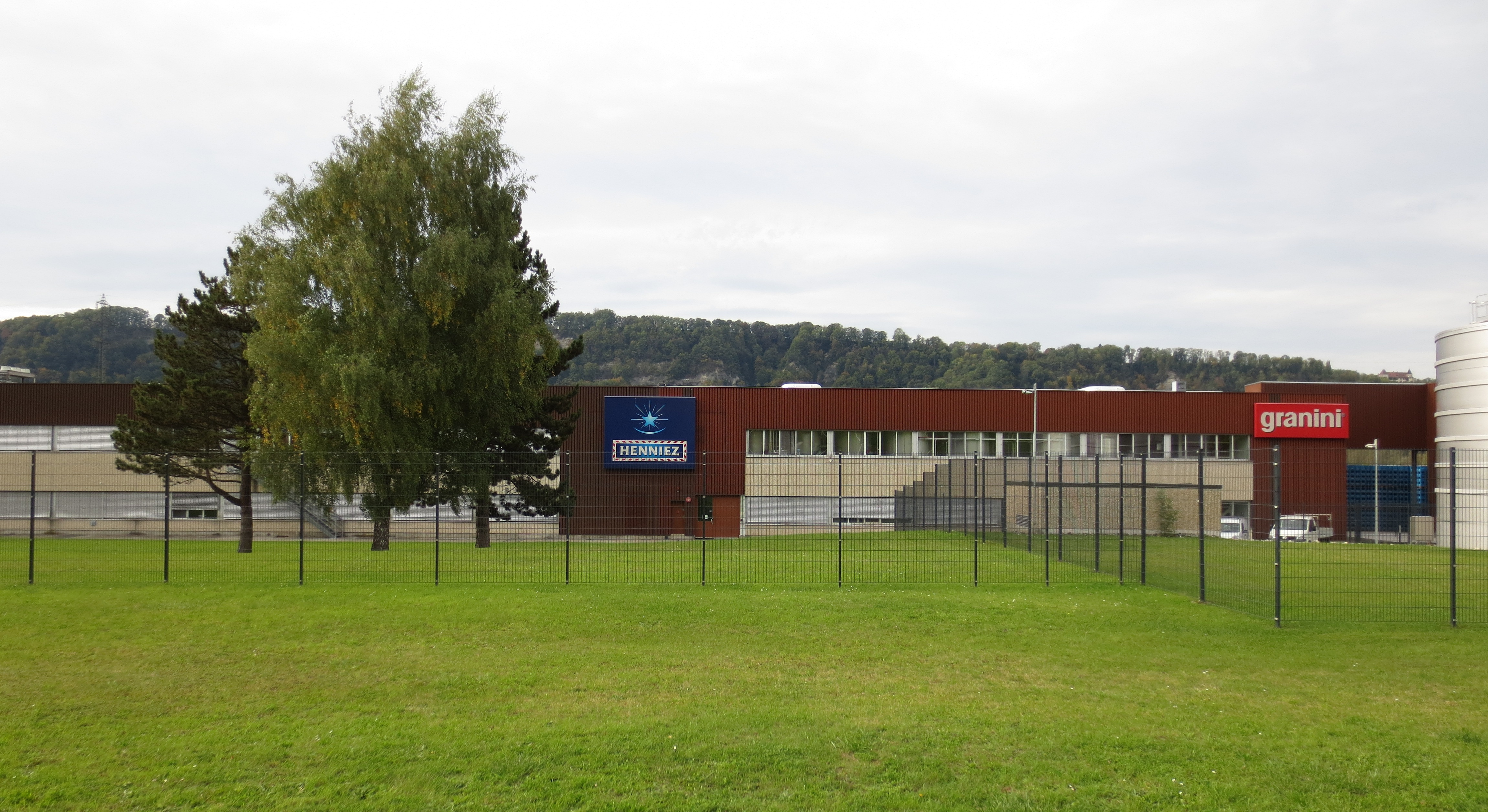 Henniez water bottling factory, Switzerland